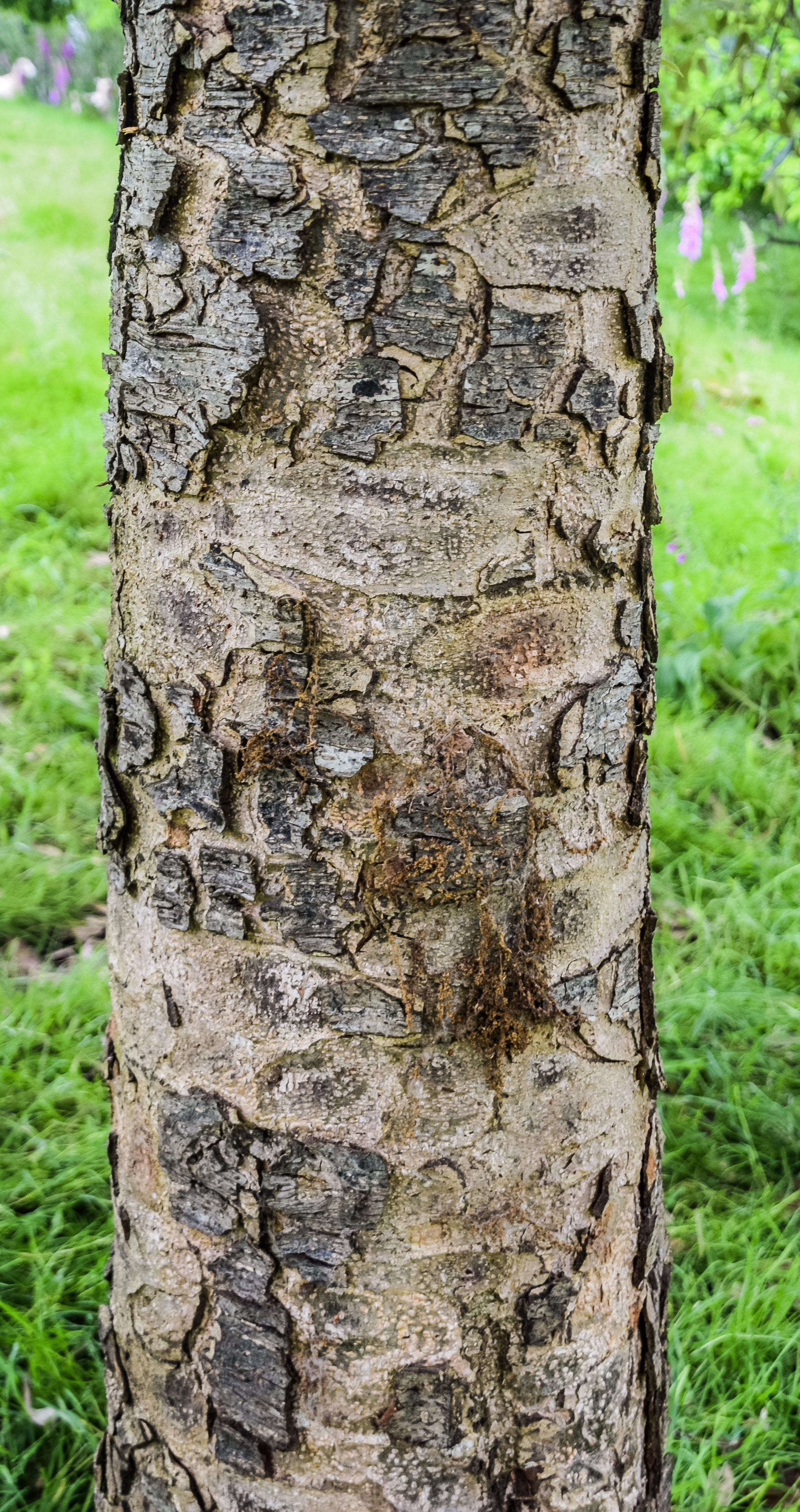 Quercus oblongata in Hackfalls Arboretum, Gisborne Region, New Zealand